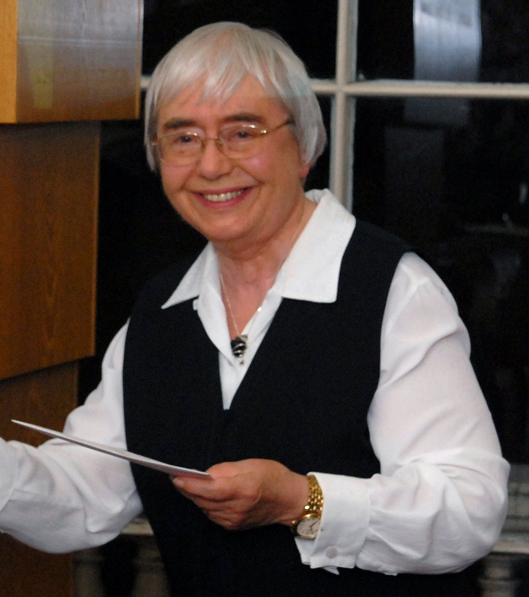 Jacqueline Froom receiving 2nd prize in the Keats-Shelly Poetry Prize 2008